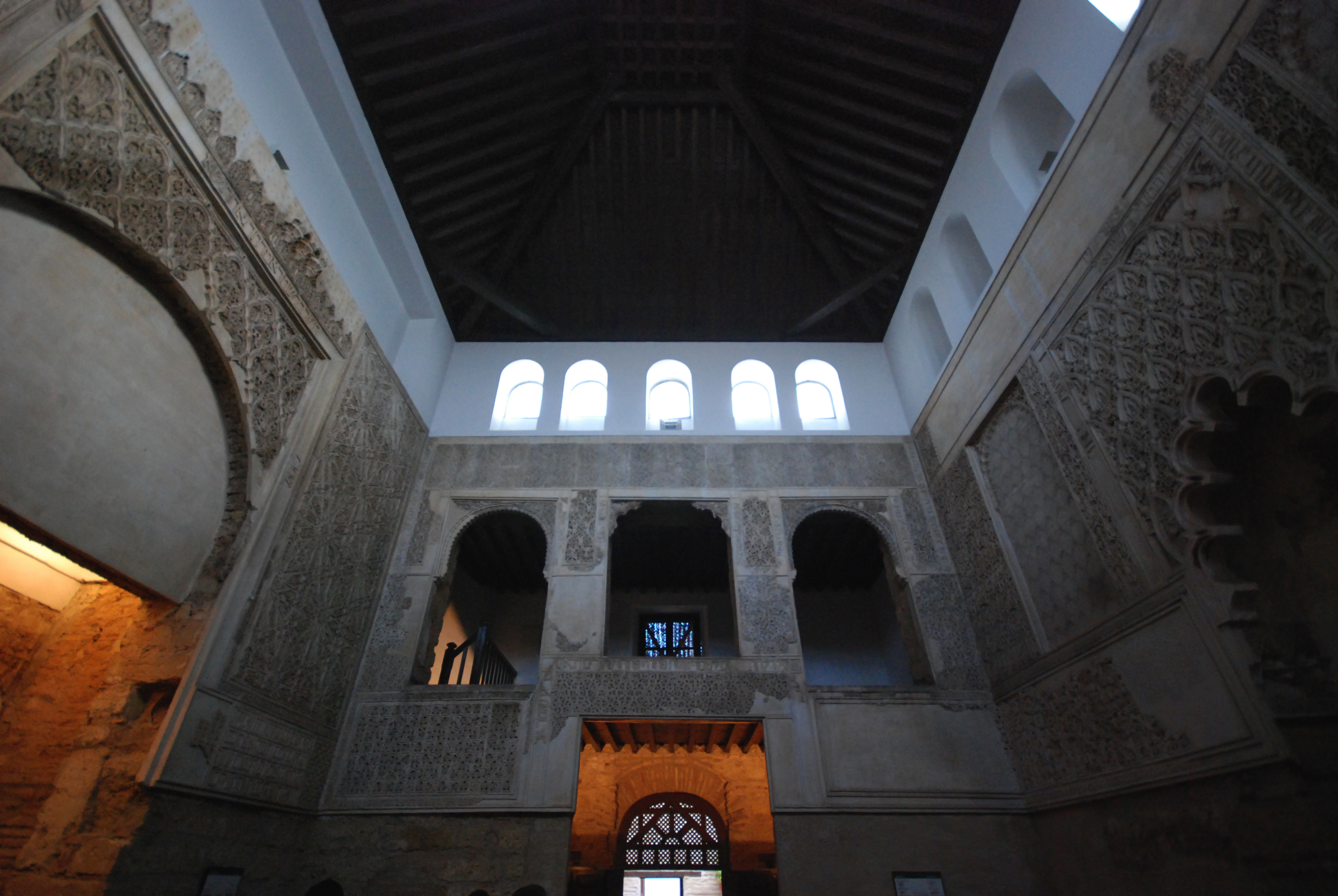 Synagogue of Córdoba, Spain.